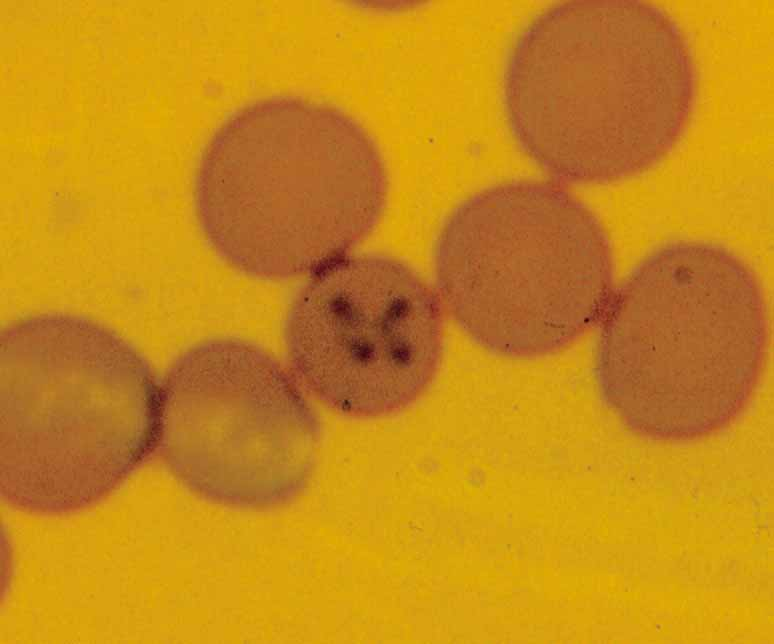 Babesia equi in horse erytrocites: microphotography 1000 x